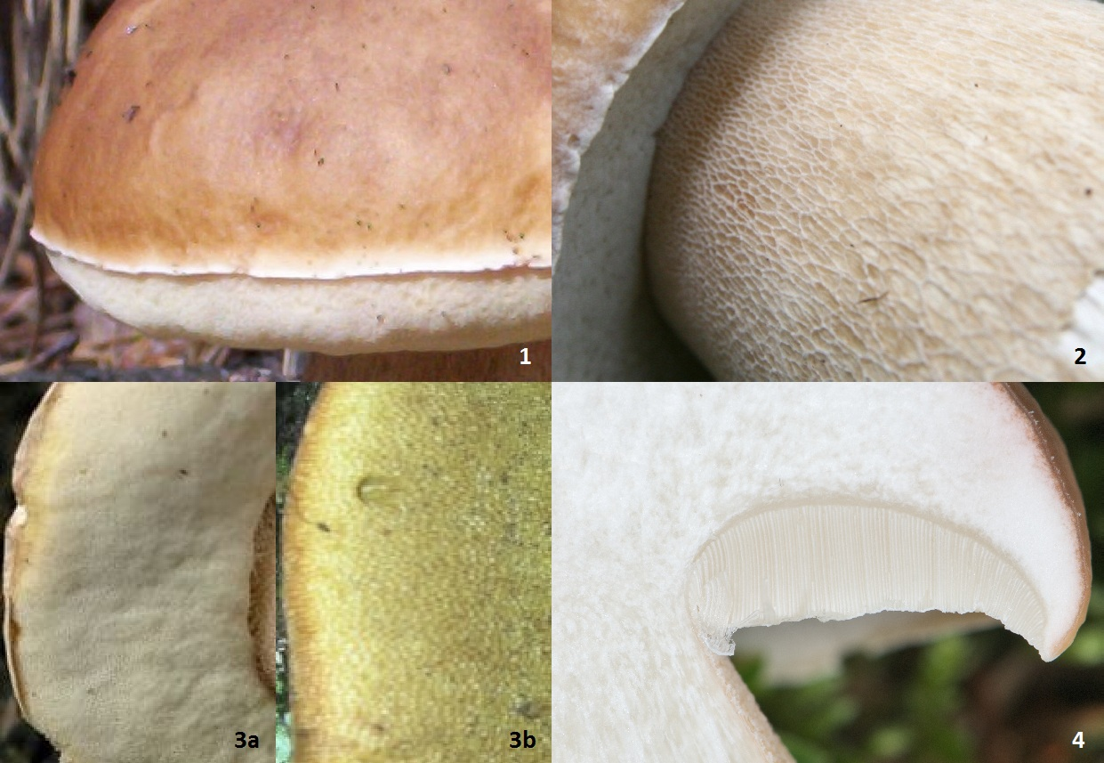 Some details of Boletus edulis: (1) pileus, (2) reticulate stem, (3a, 3b) pores, (4) flesh